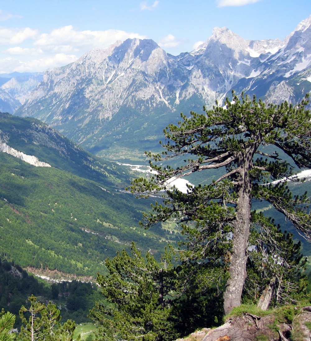 Valbona Valley in the Prokletije. Tree is Pinus heldreichii